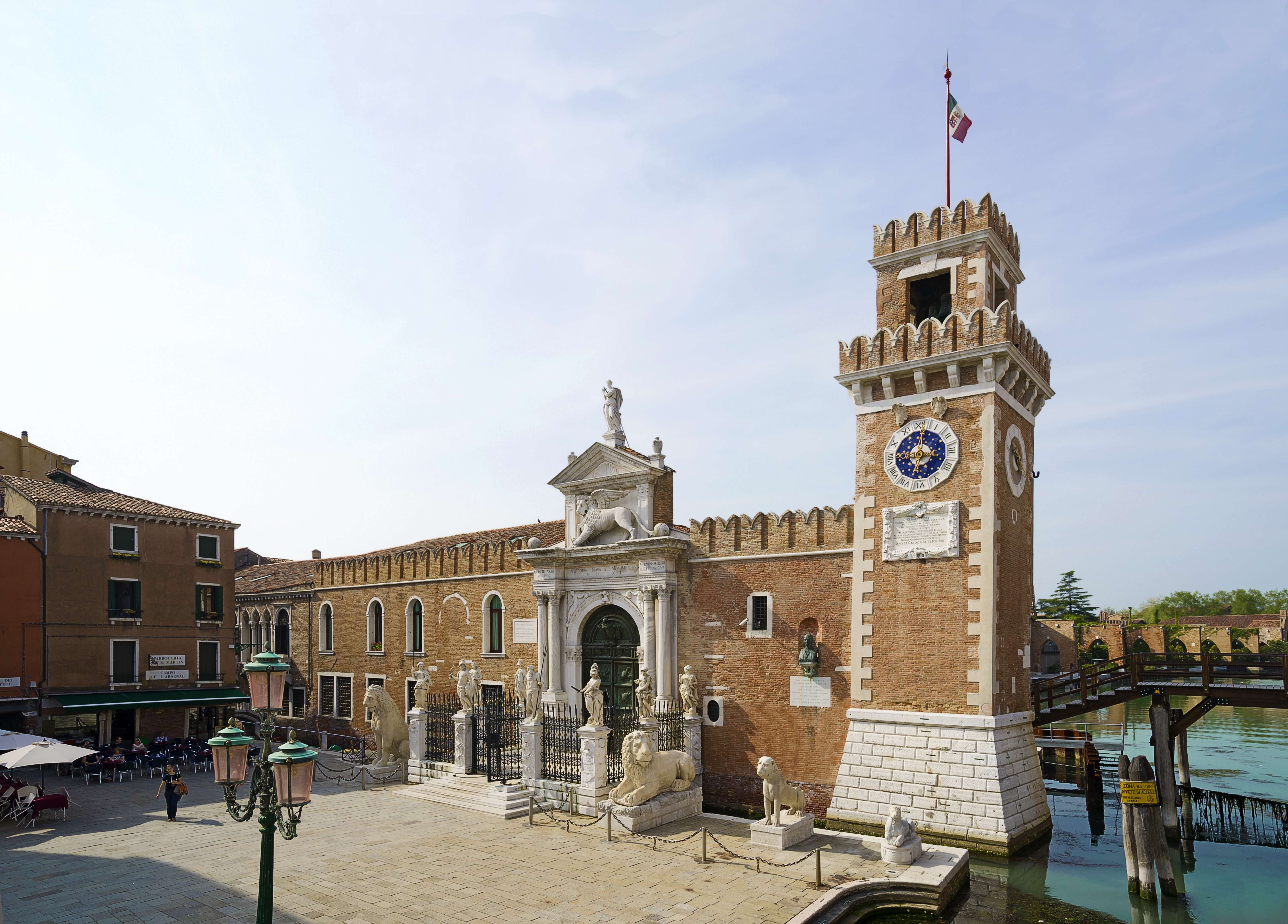 The so-called "Solid ground entrance" of the Arsenale in Venice was built between 1692 and 1694 on a project by Alessandro Tremignon. Eight standing figures on pedestals on the ground: At the front row: from left to right: La Giustizia by Giovanni Antonio Comino, Marte by Giovanni Antonio Comino, Nettuno by Giovanni Antonio Comino, Bellona by Francesco Cabianca At the the second and the third rows: L'Abbondanza by Francesco Cabianca (last row on the right), La Vigilanza by Francesco Cabianca (second row on the right), Two more Allegorical statues by Giovanni Antonio Comino,(second and third row on the left)